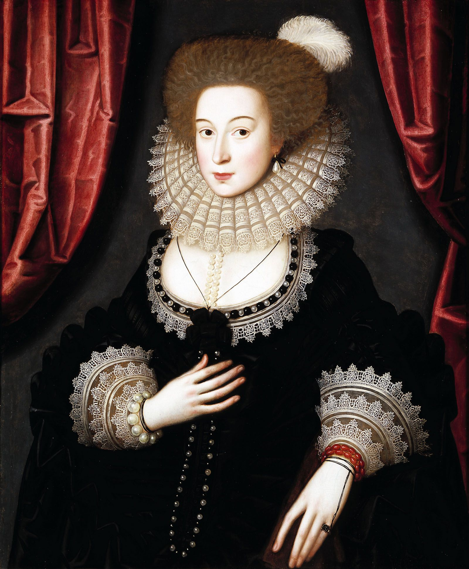 Portrait of Mary Radclyffe